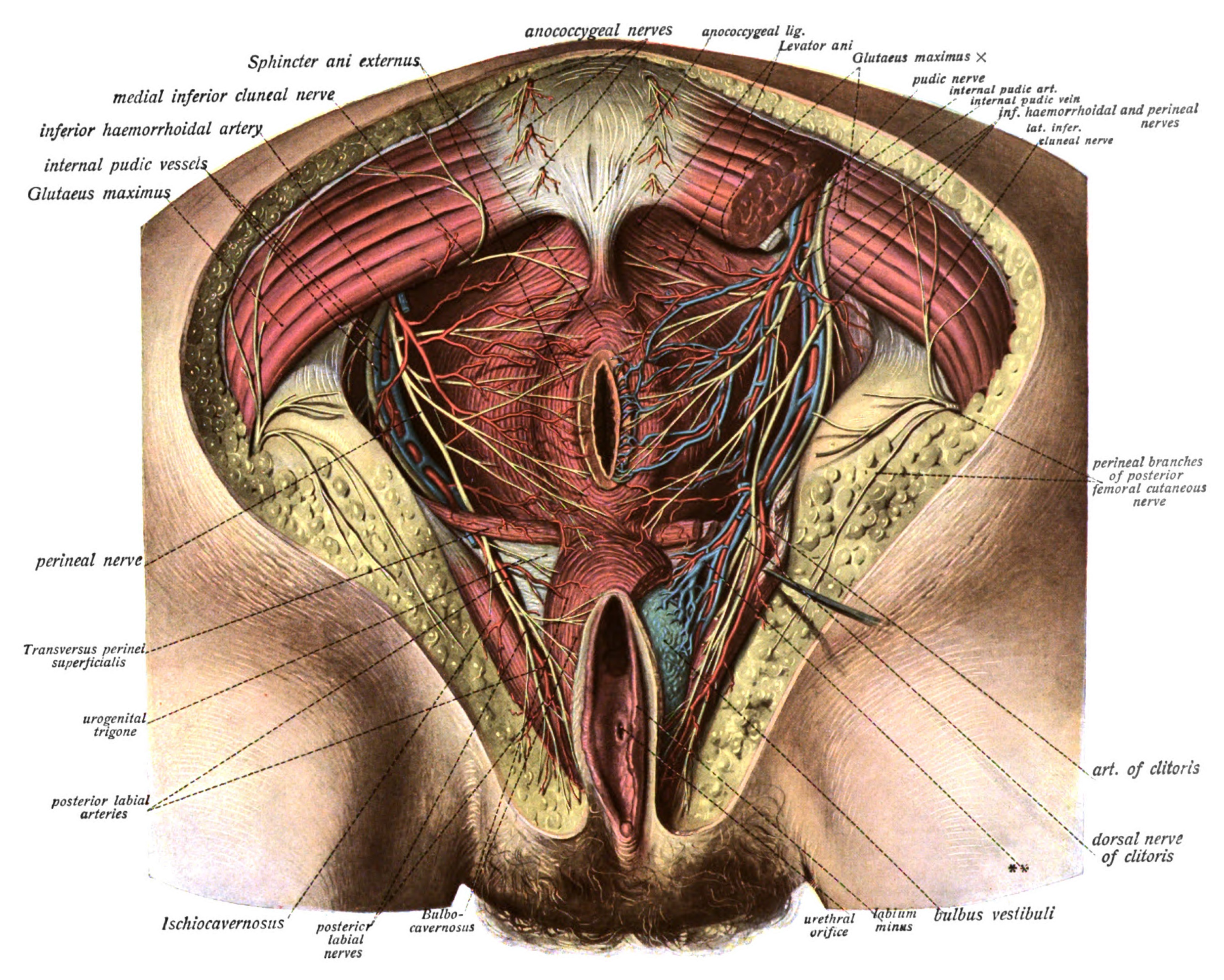 An anatomical illustration from the 1911 edition of Sobotta's Atlas and Text-book of Human Anatomy with English terminology.